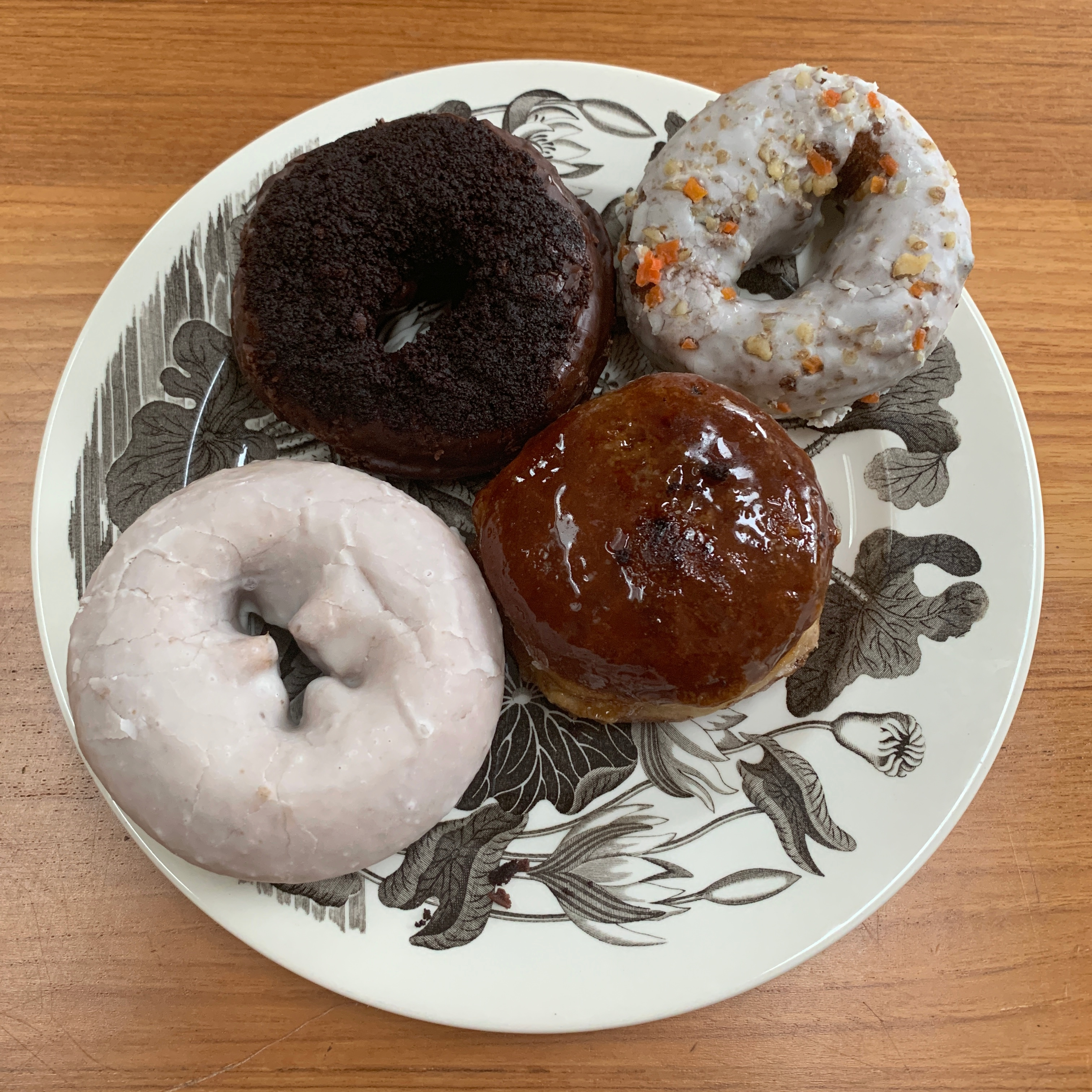 Doughnuts made in Brooklyn April 2019